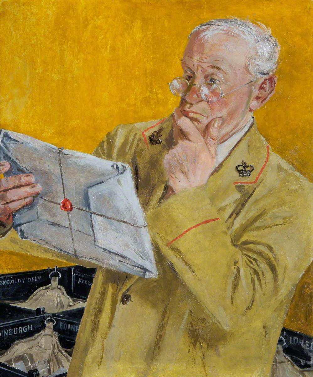 (c) Judy Fitton and Tim Fitton; Supplied by The Public Catalogue Foundation